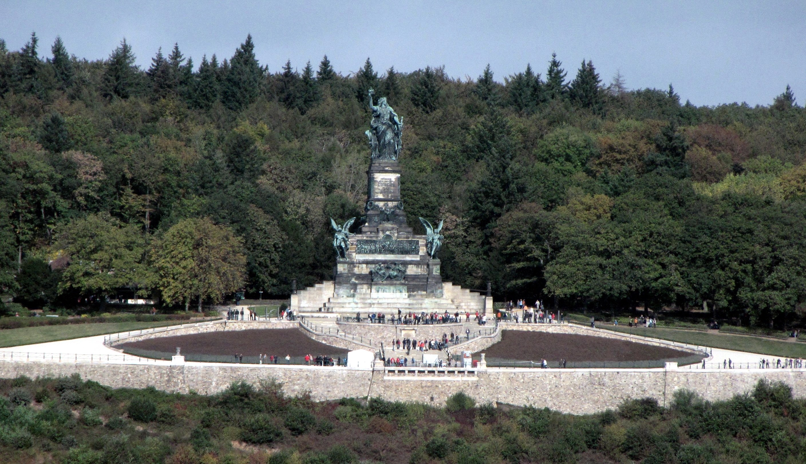 Niederwalddenkmal